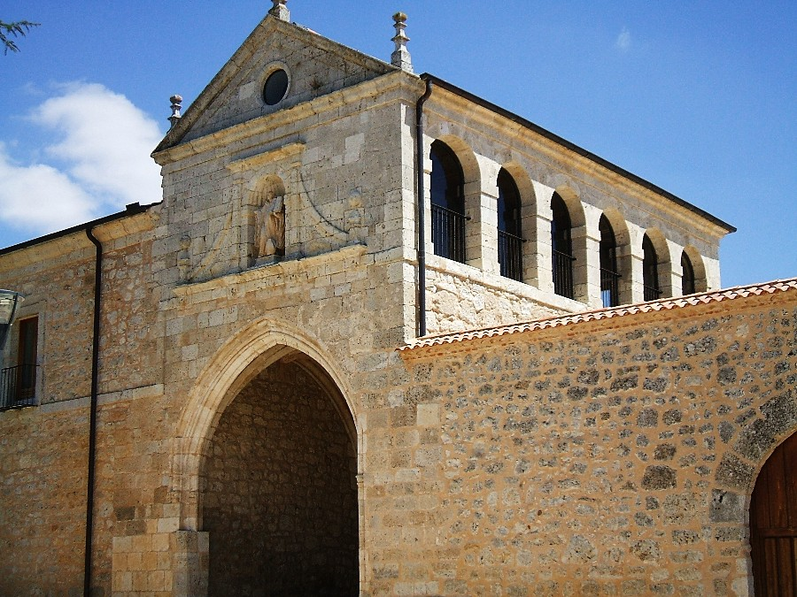 Monasterio de Santa María de Valbuena, provincia de Valladolid, España